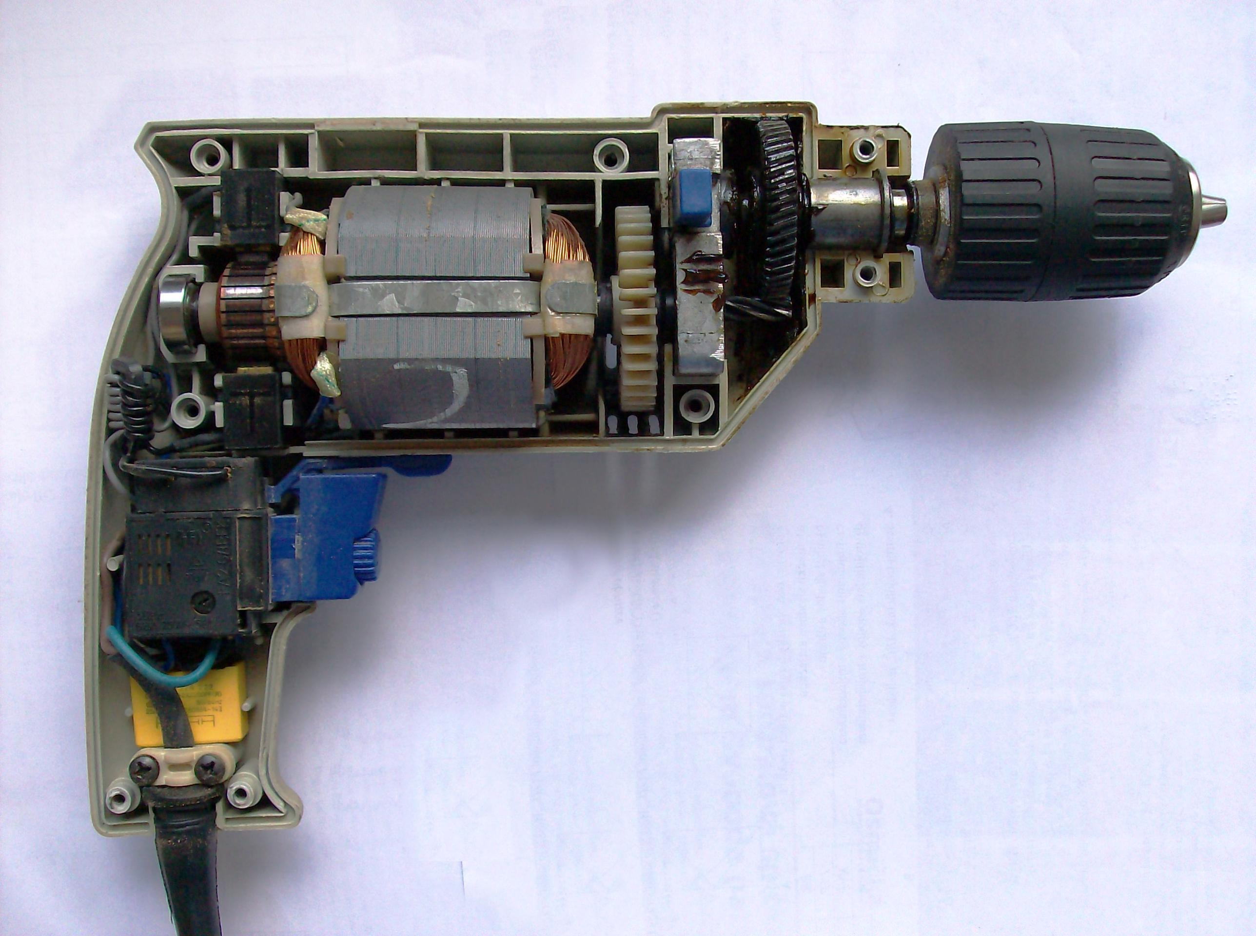 A look inside a standard, thyristor regulated, 500 W drill. (CMI 500E)